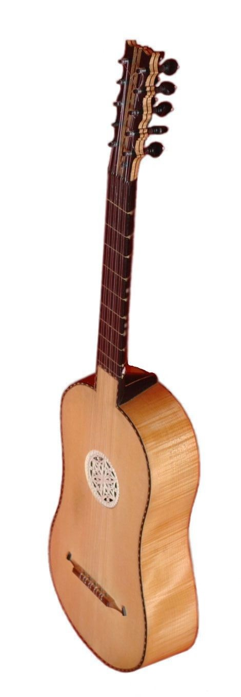 Baroque guitar reproduction. Luthier: Szabolcs Bárdi, Hungary